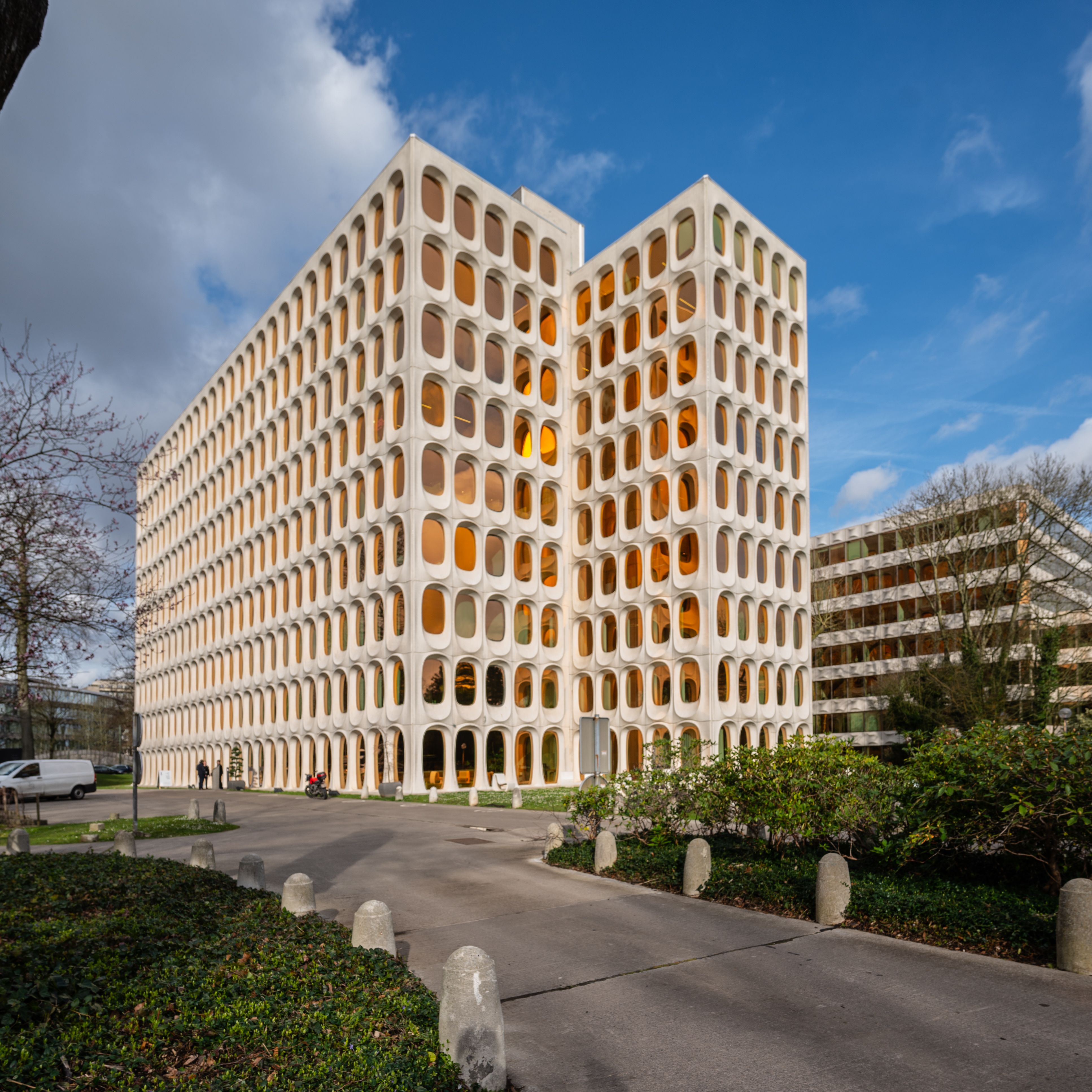 This picture shows the aesthetically pleasing facade of the CBR Building in Brussels.